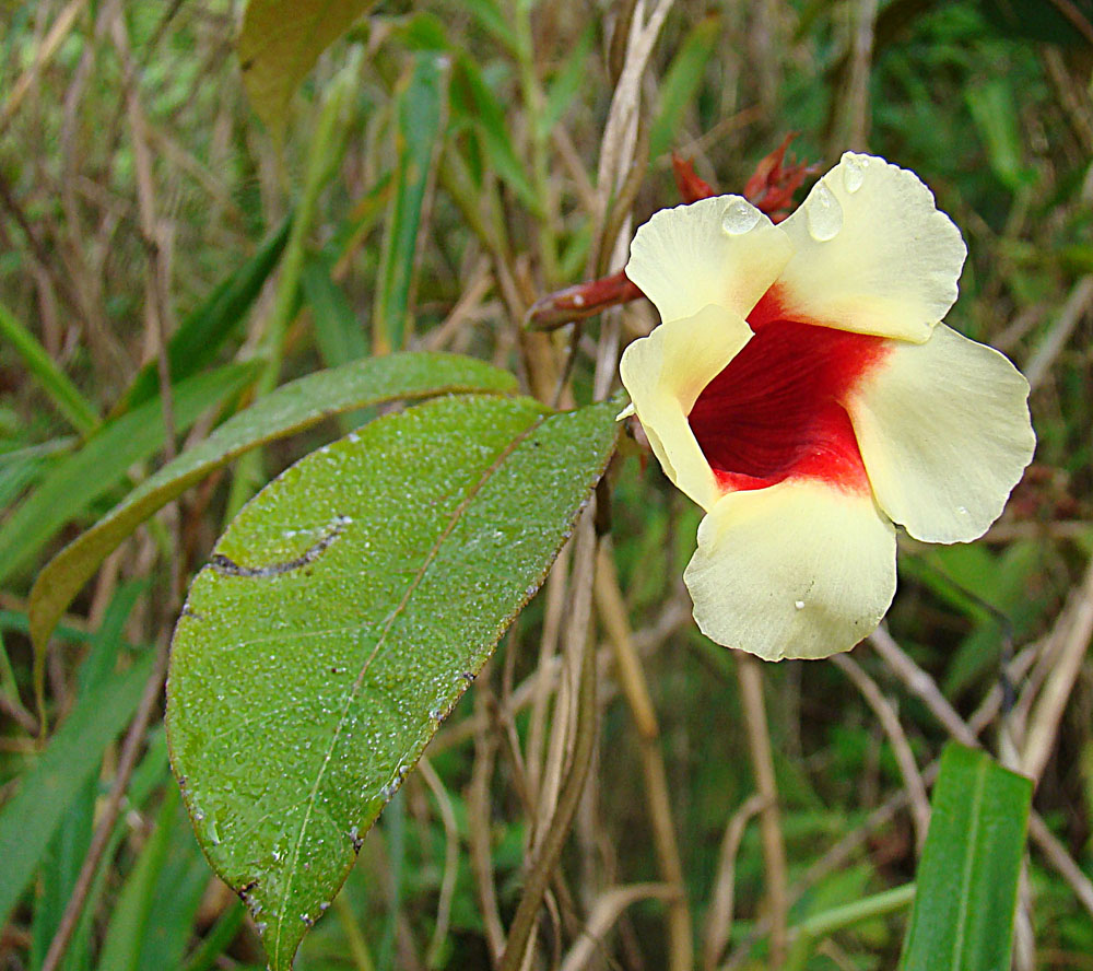 Also known as the Plebeian Trumpet Vine, photo from the San Blas Range, Panama. In context at